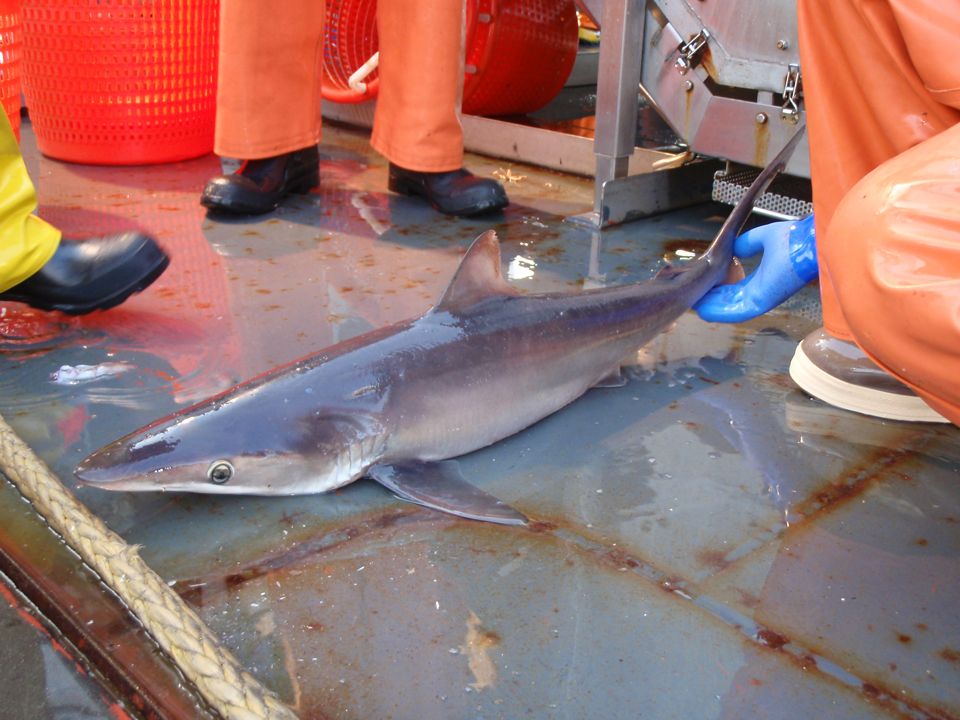 Silky shark (Carcharhinus falciformis) caught on an Ecosystems Surveys Branch Cruise.